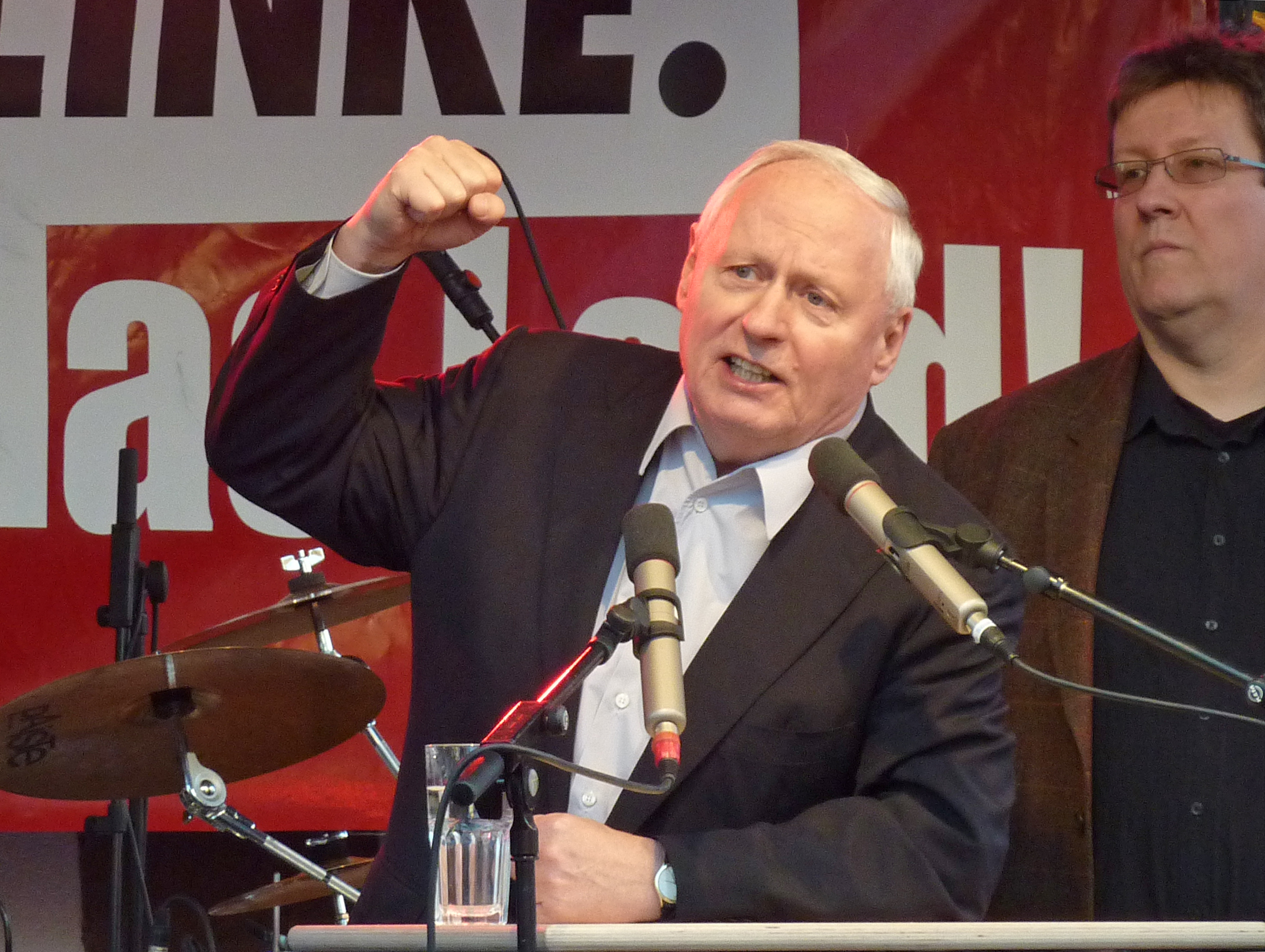 Oskar Lafontaine speaking at an election campaign rally organized by the party Die Linke at the Rathausplatz, Freiburg, Germany, on March 21, 2011. To his left is a candidate, the biologist Dr. Armin Wolff.